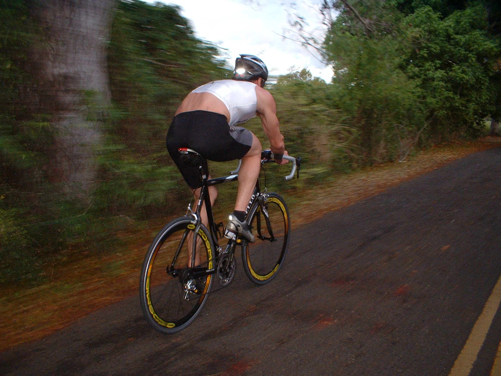 Saint Croix Ironman 70.3